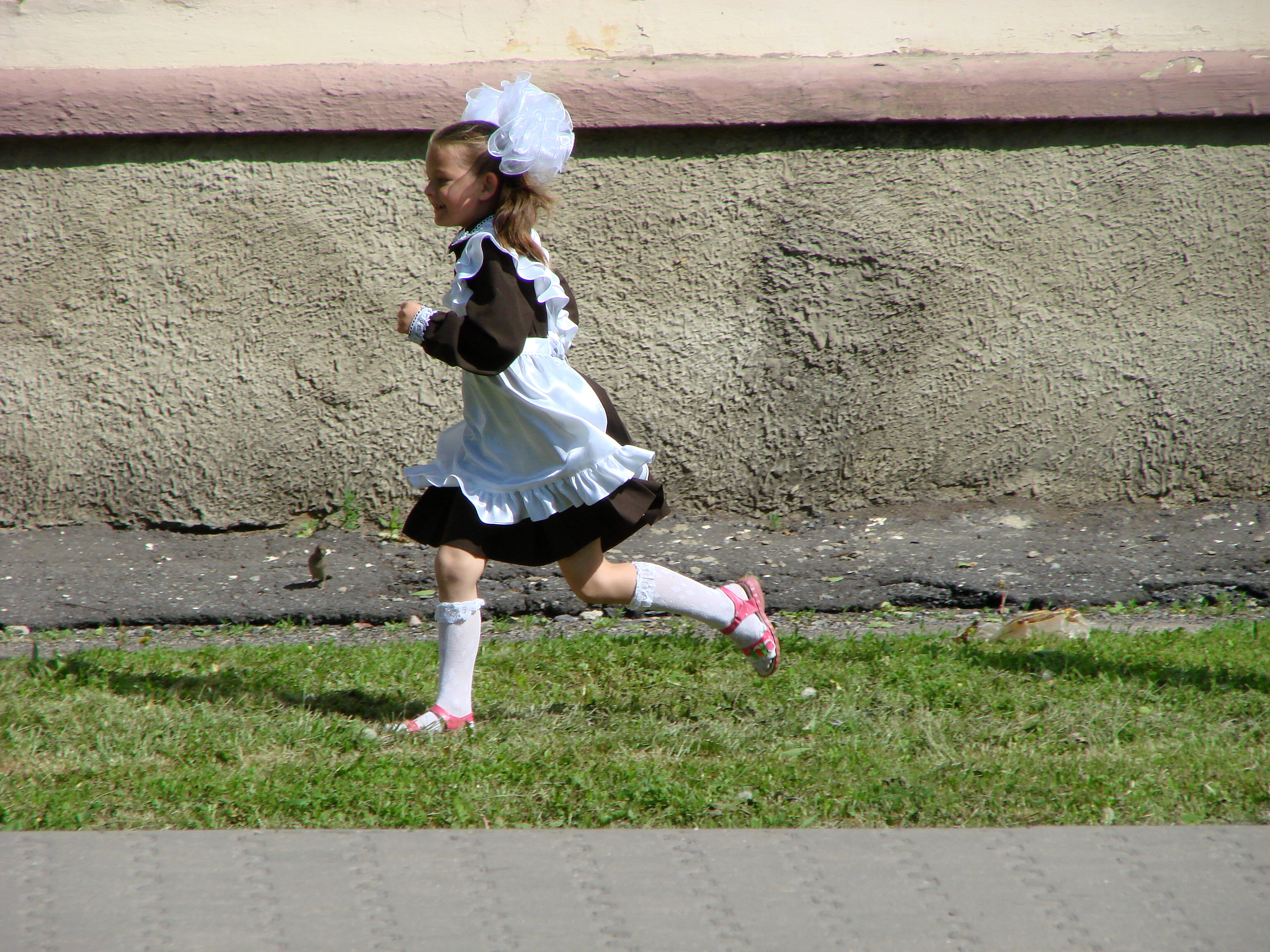 Young girl running in Soviet-style school uniform, Prokhorovka, Russia. May 2008.